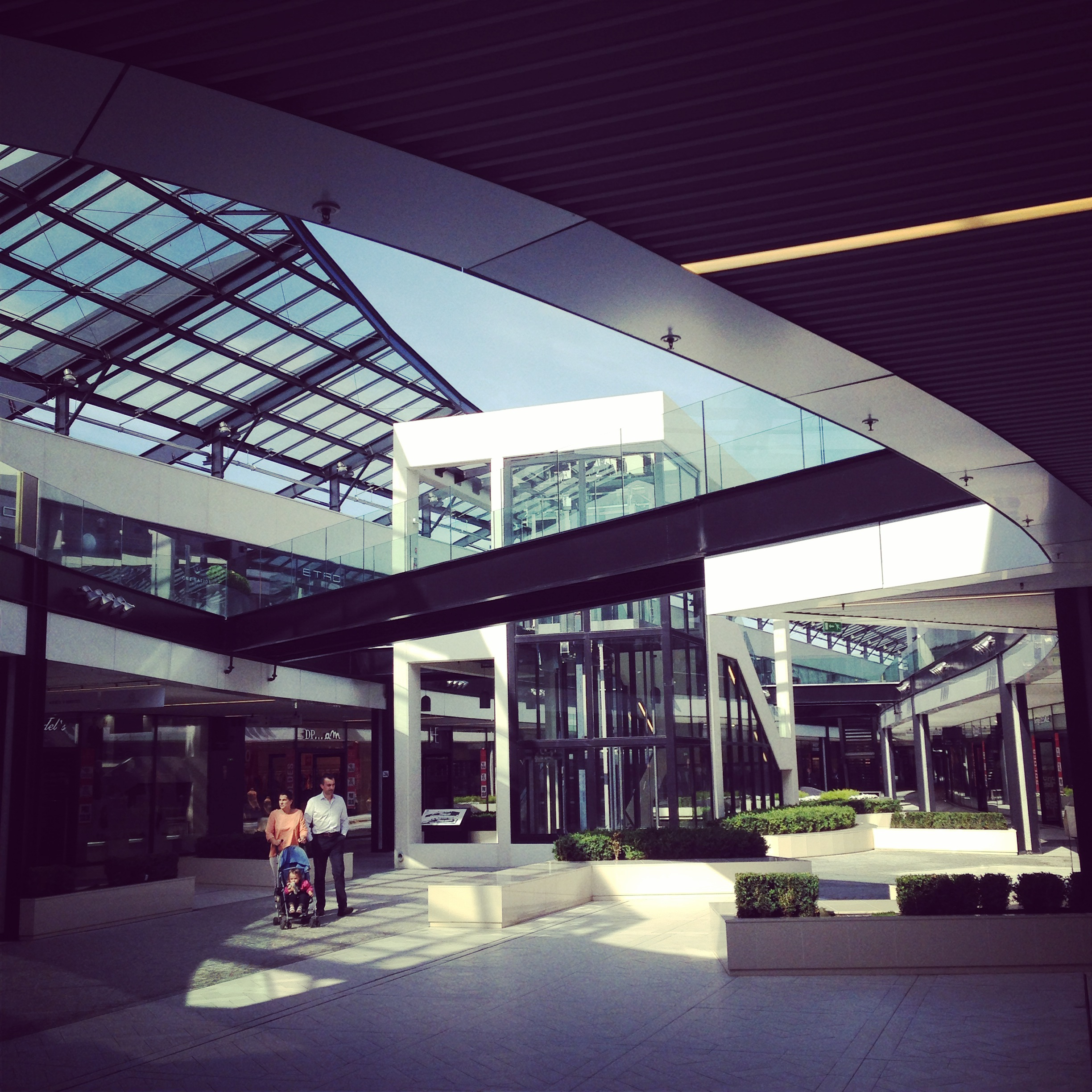 One Nation Paris outlet